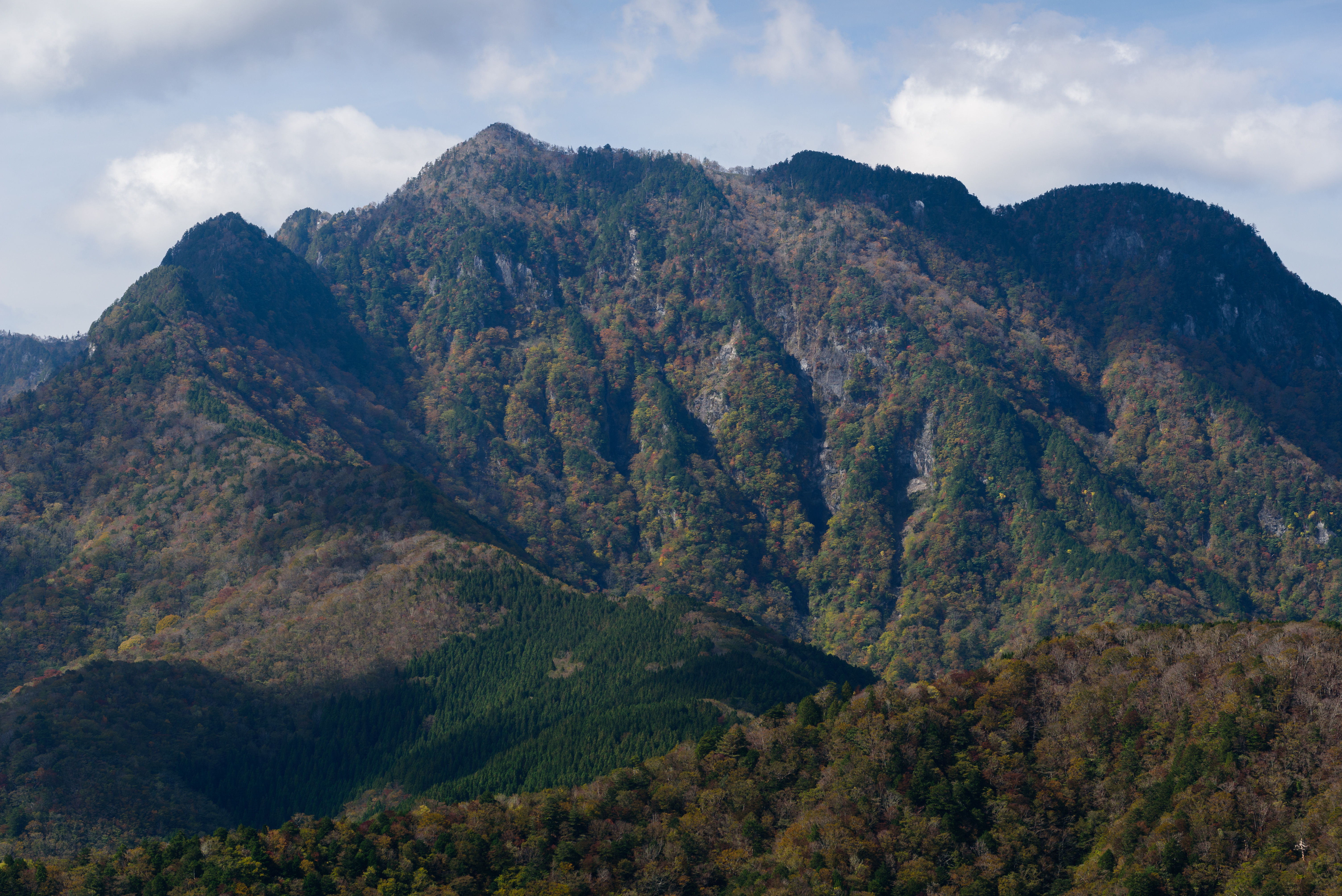 Mount Daifugen (Daifugendake, 1,780,metres) from Mount Obagamine, Kamikitayama, Nara.